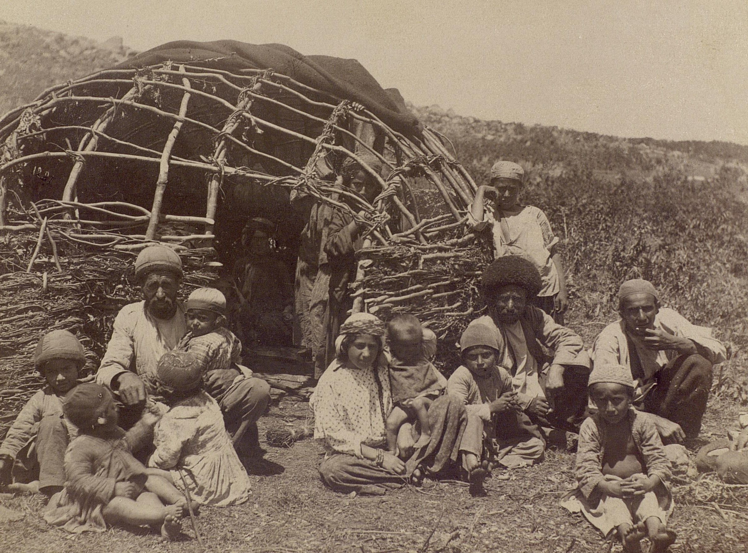 Talysh people near their house